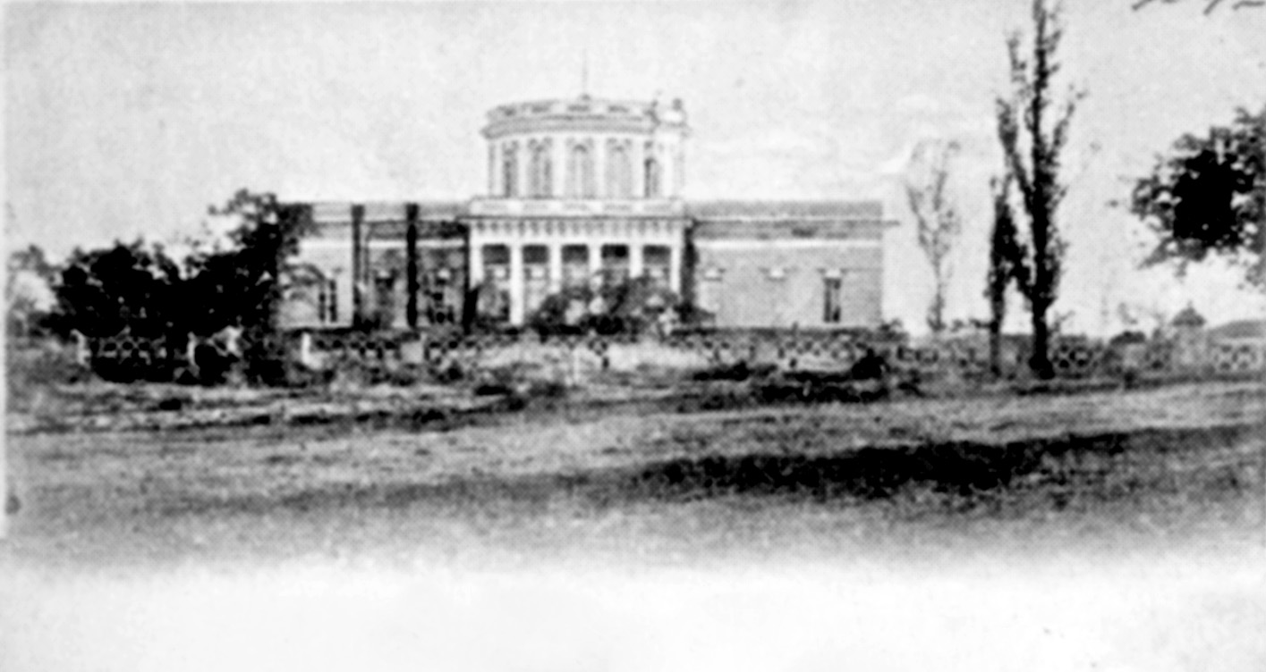 Old picture